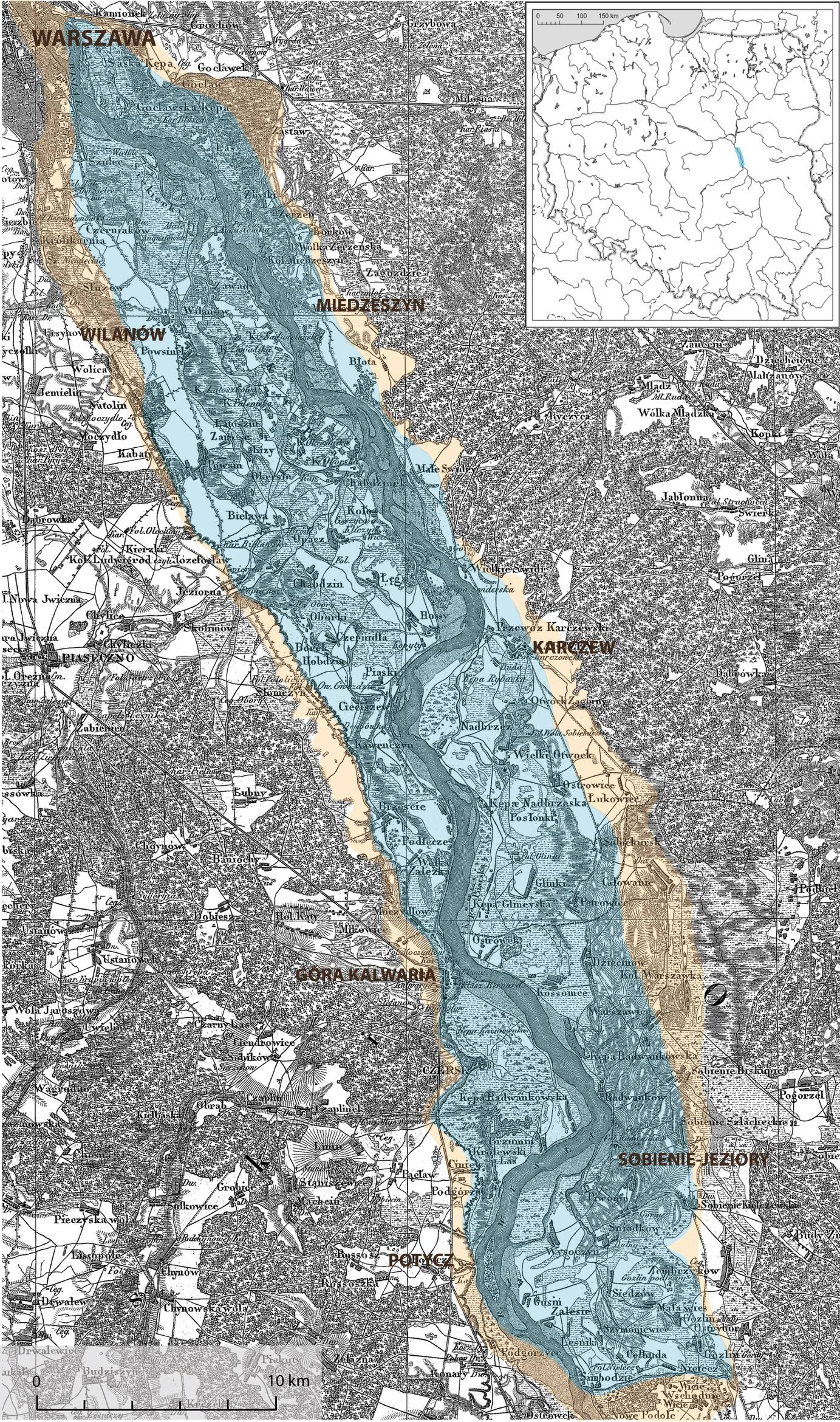 Map of Urzecze (The Vistulan Riverside) - an ethnographic micro-region near Warsaw, by Łukasz Maurycy Stanaszek 2014